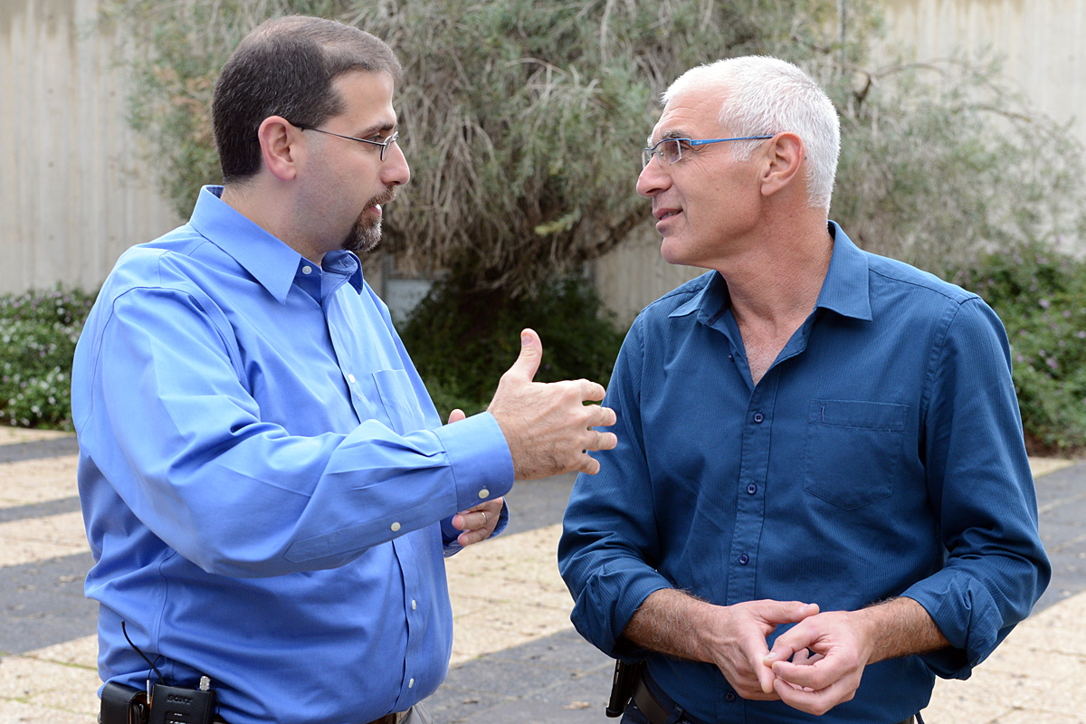 Supporting Israel’s Right to Self-Defense – Ambassador Shapiro visits Eshkol Regional Council.